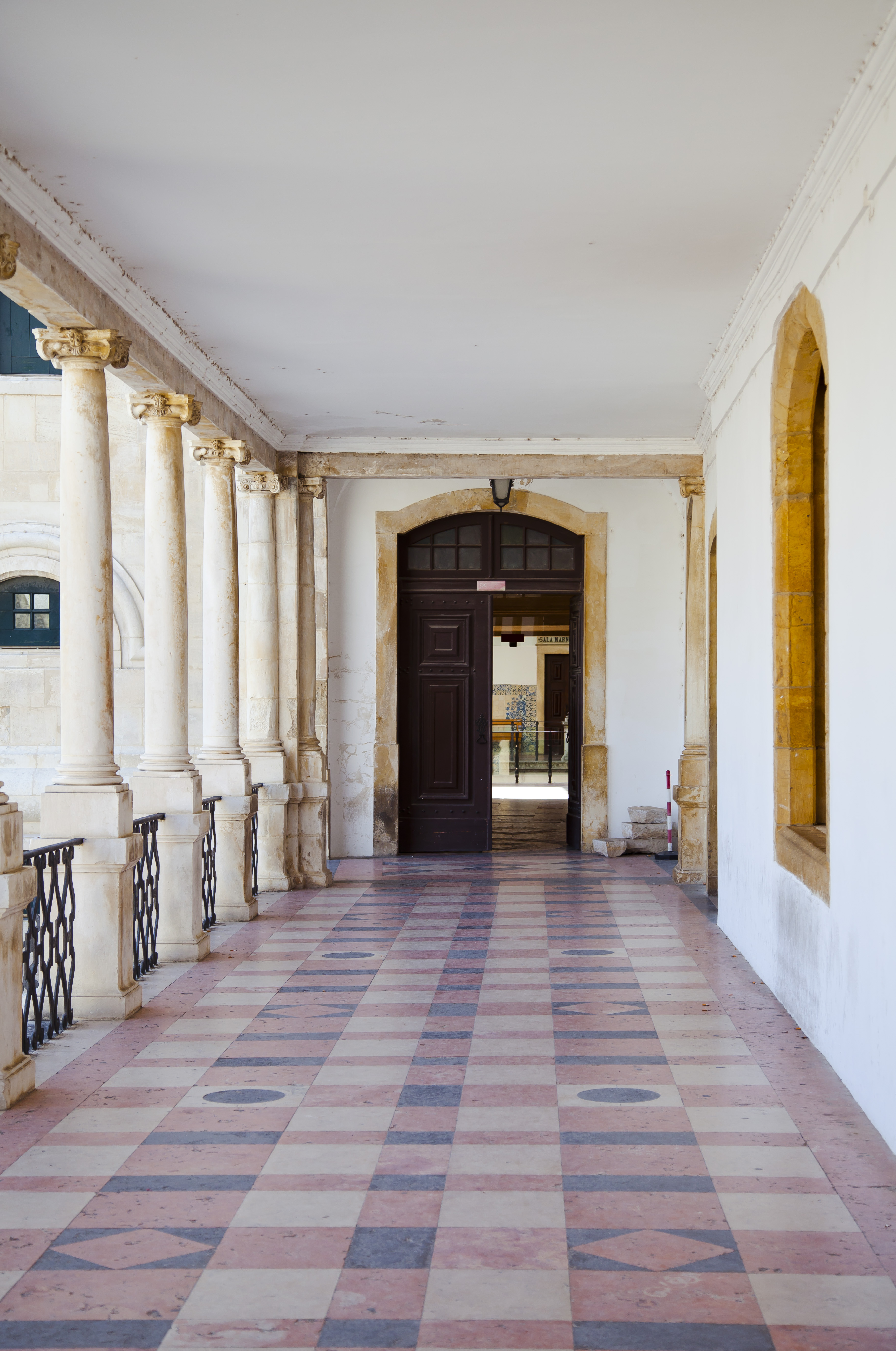 School of Law, University of Coimbra, Portugal